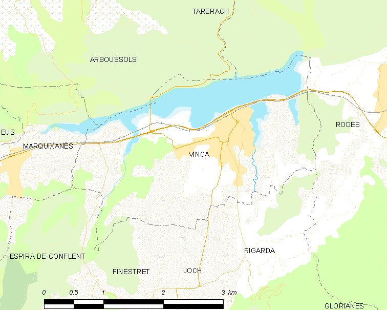 Map of French municipality